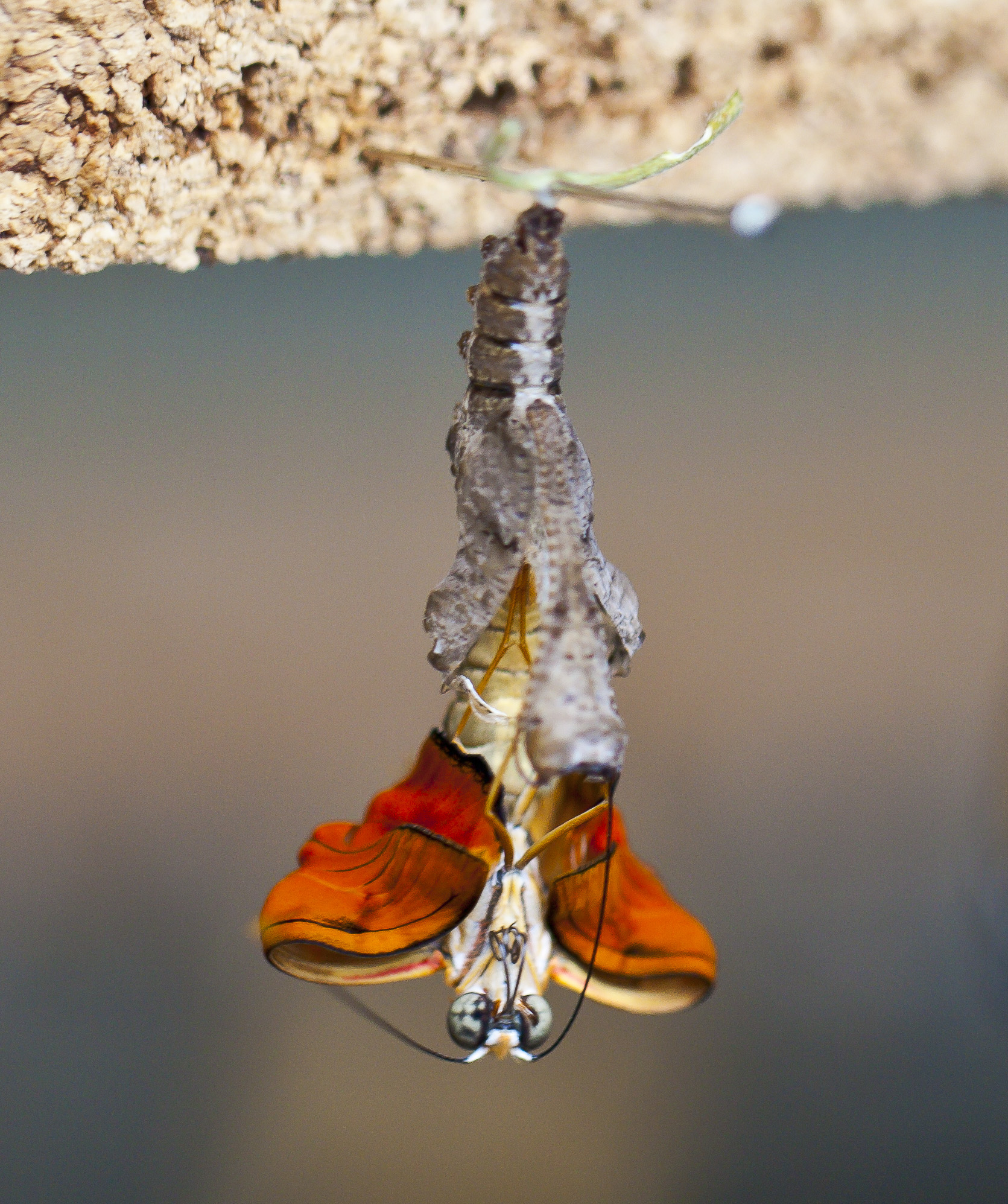 Birth of a Dryas iulia, Butterfly zoo of Icod de los Vinos, Tenerife, Spain